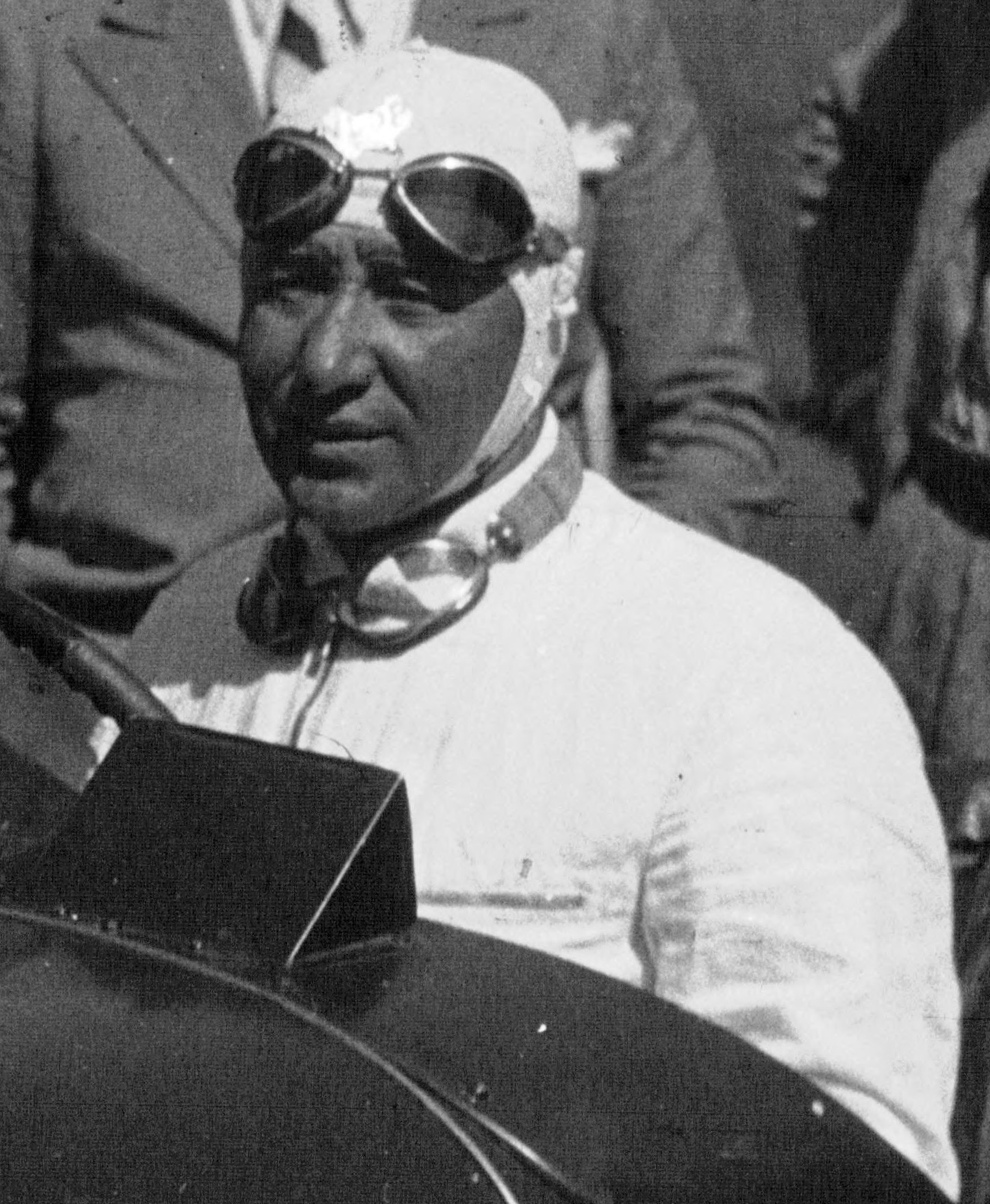 Amedeo Ruggeri in his Maserati at the 1932 Targa Florio.